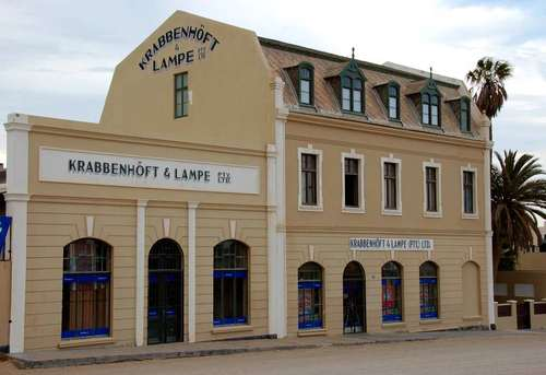 Picture of the Krabbenhoeft Building- now a bed and breakfast in Lüderitz, Namibia